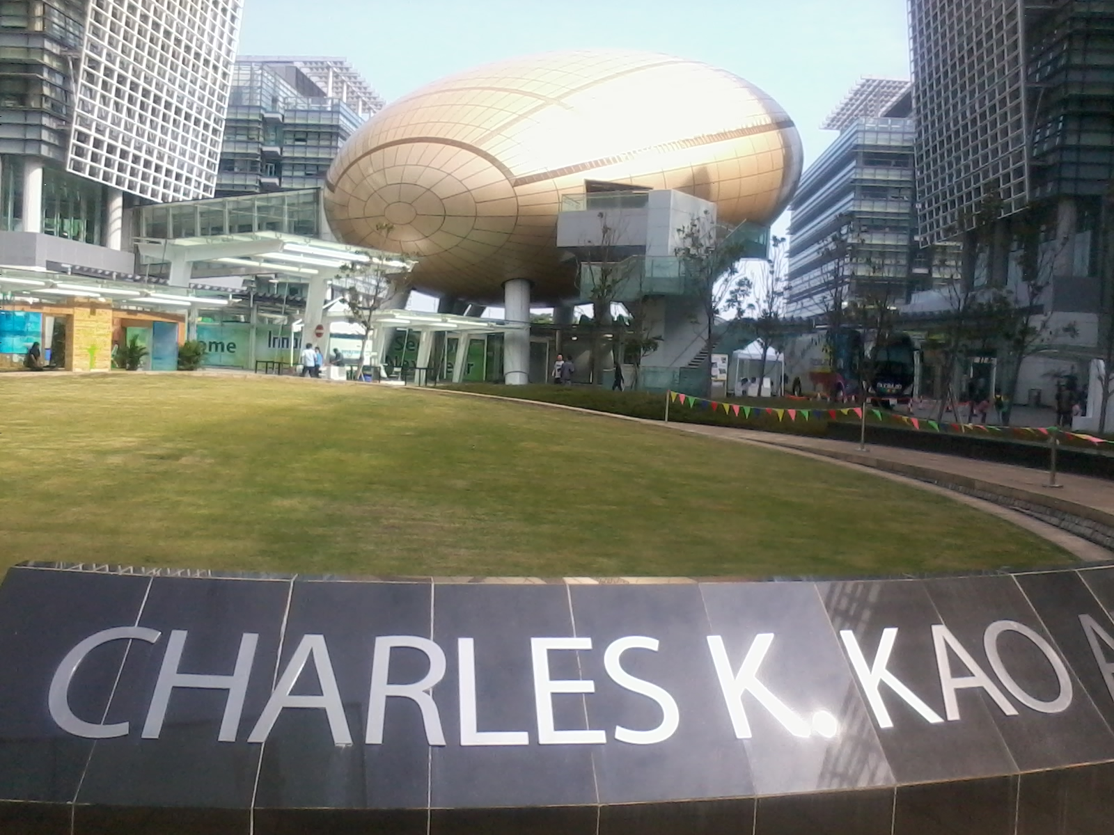 Science Park, Pak Shek Kok, Hong Kong